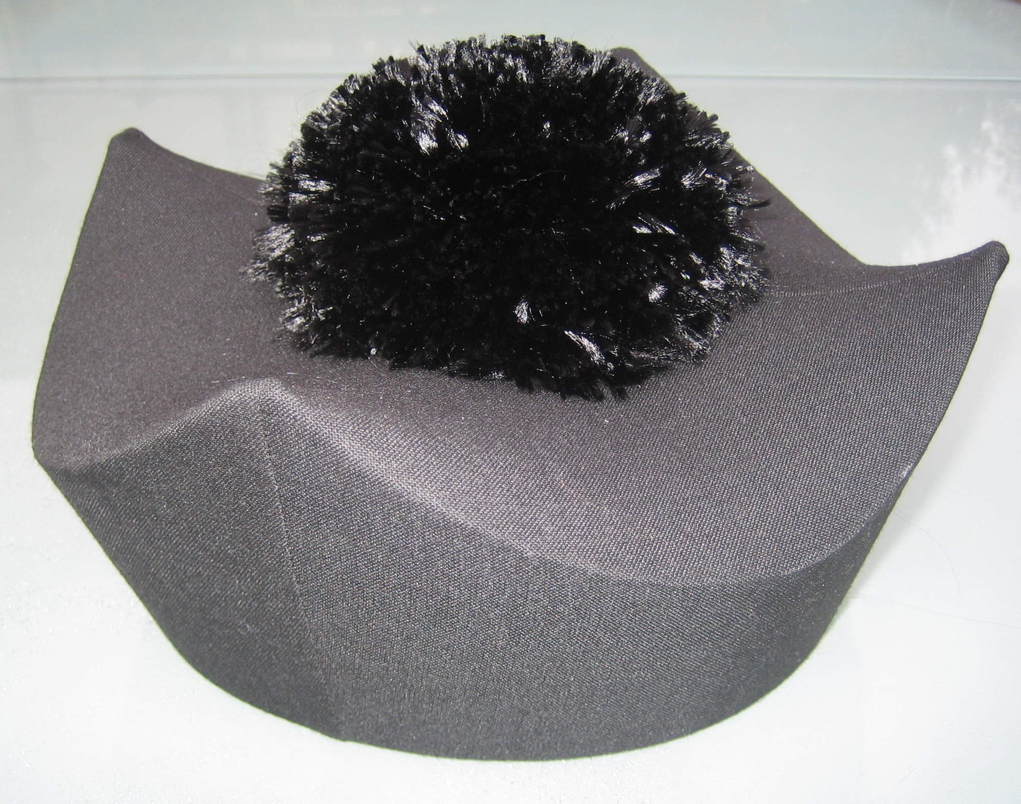 Bonete, the spanish biretta, worn by priets of the roman catholic church